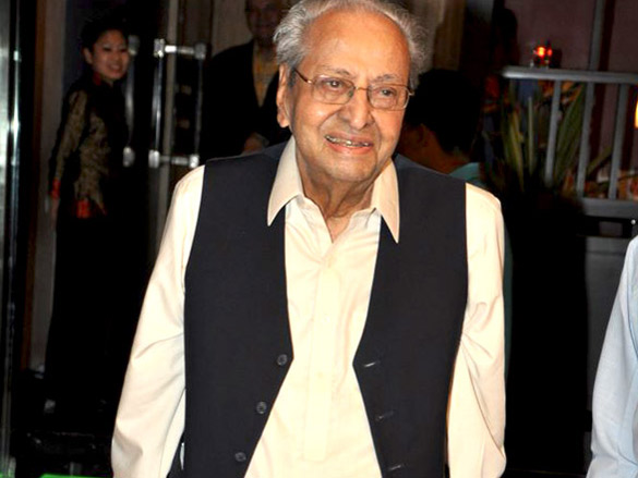 Pran on his 90th birthday.